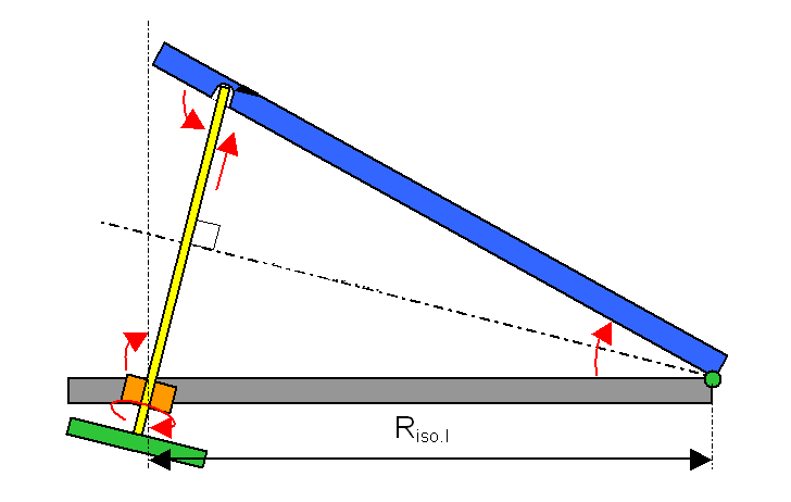 Isoscele barn door tracker